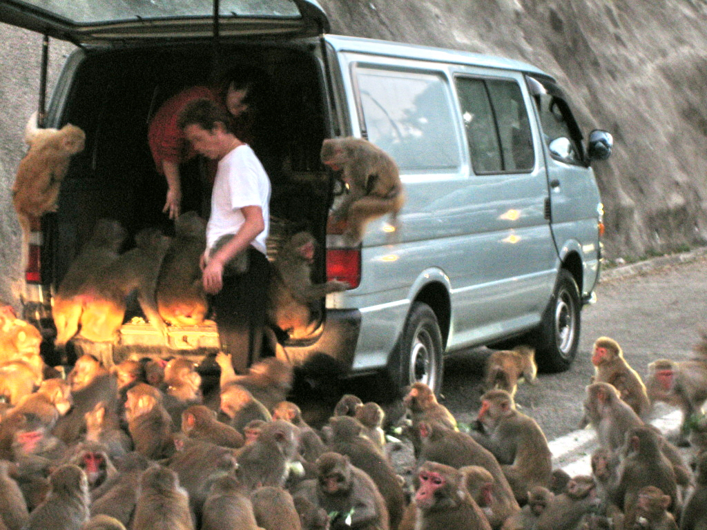 Monkeys in Hong Kong,Kam Shan